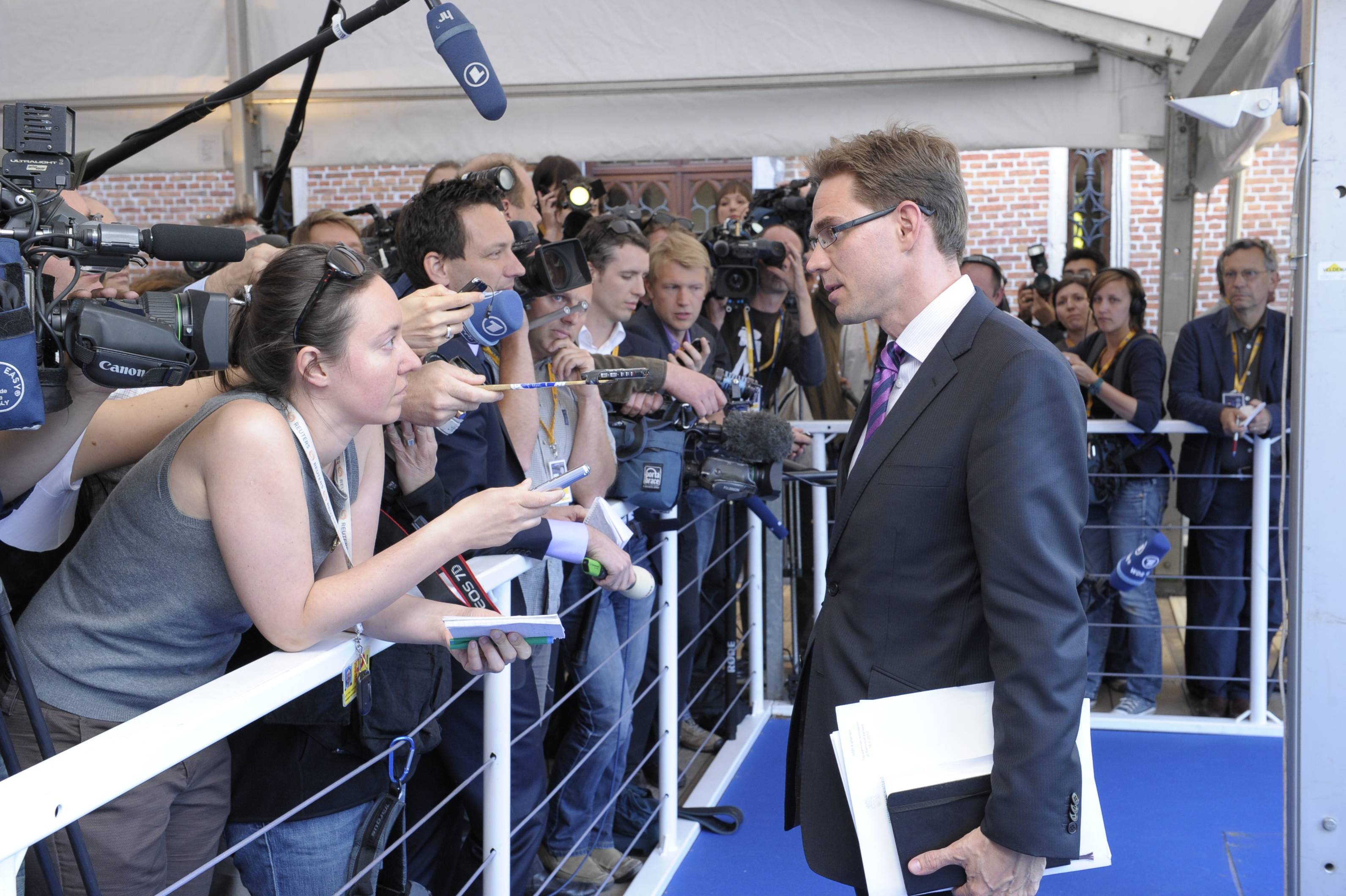 Jyrki Katainen, Deputy PM of Finland speaks to press upon arrival at the Summit